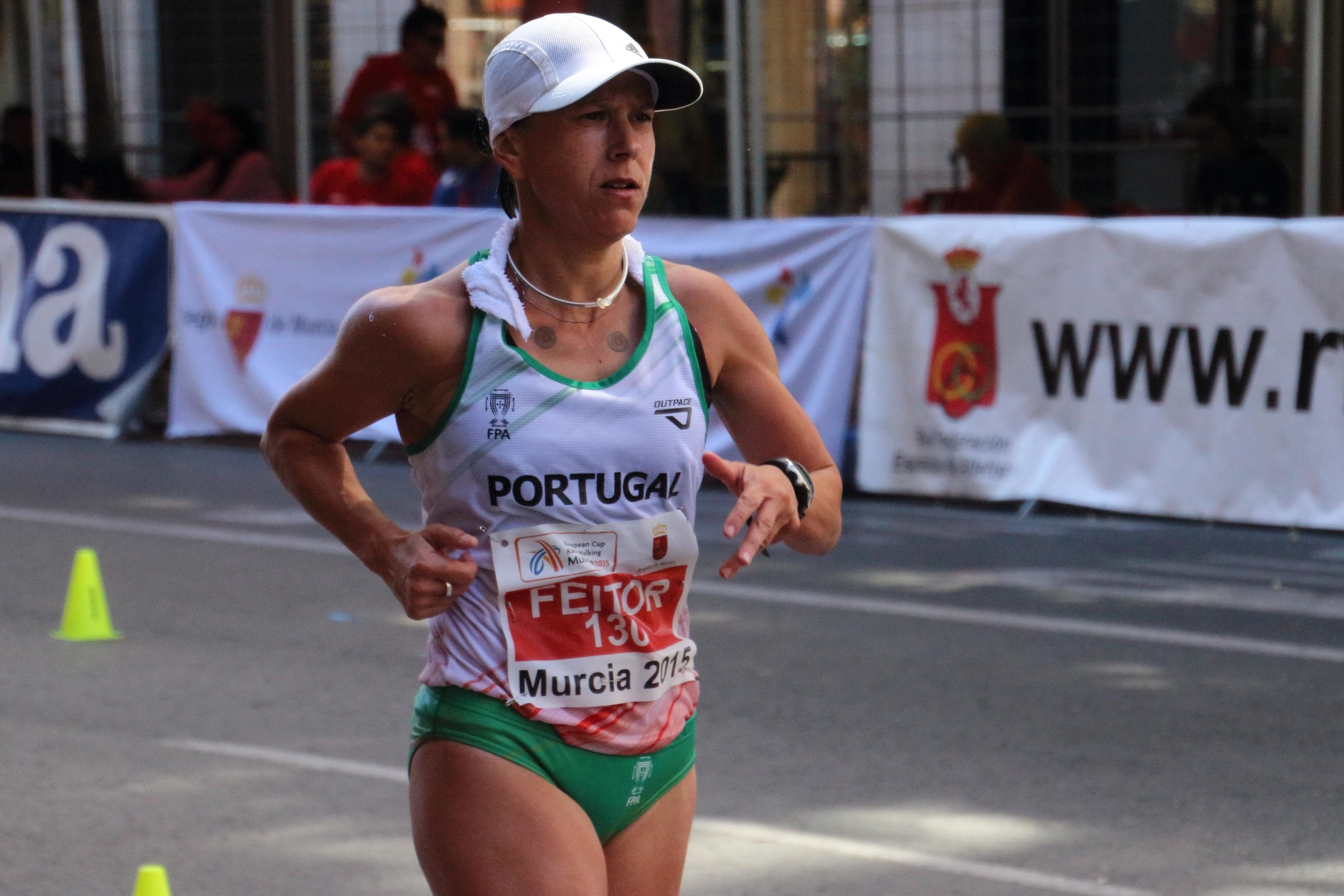 Susana Feitor, portuguese race walker, in the European Cup Race Walking 2015 (Murcia, Spain).